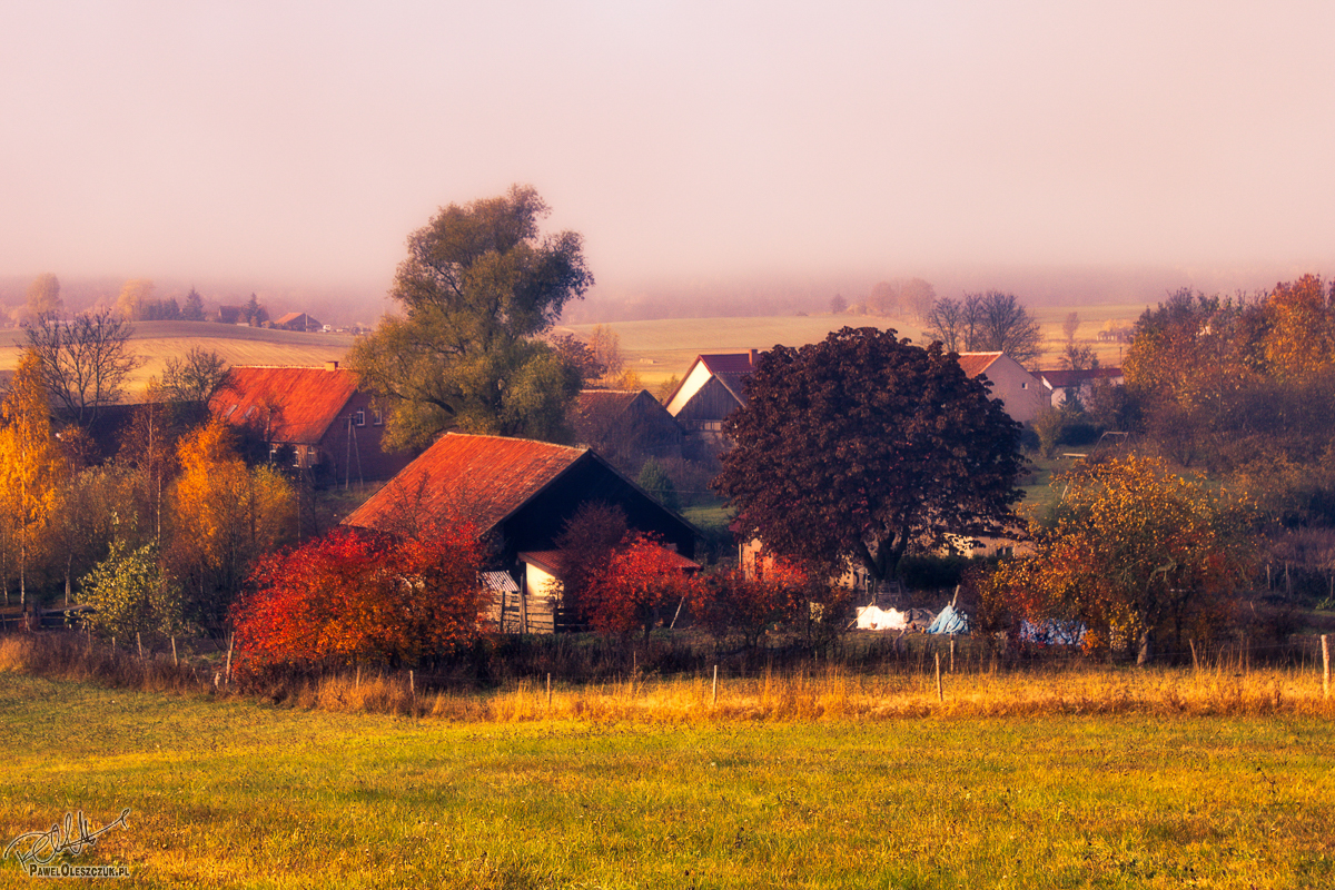 Czarny Kierz village in autumn